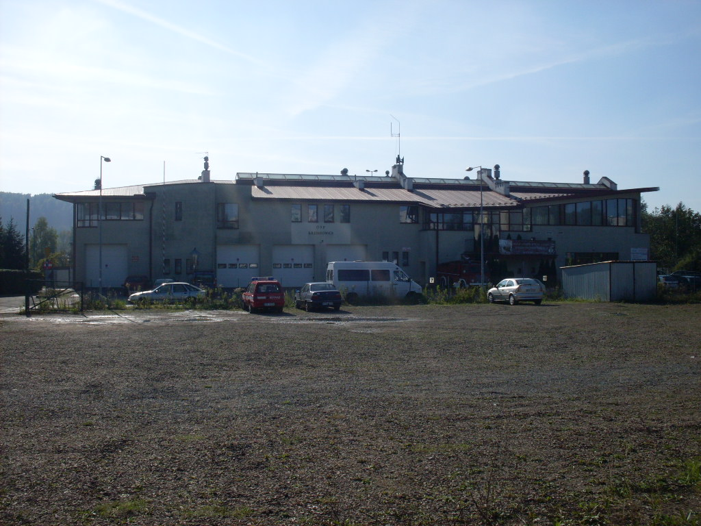 Krzeszowice. OSP